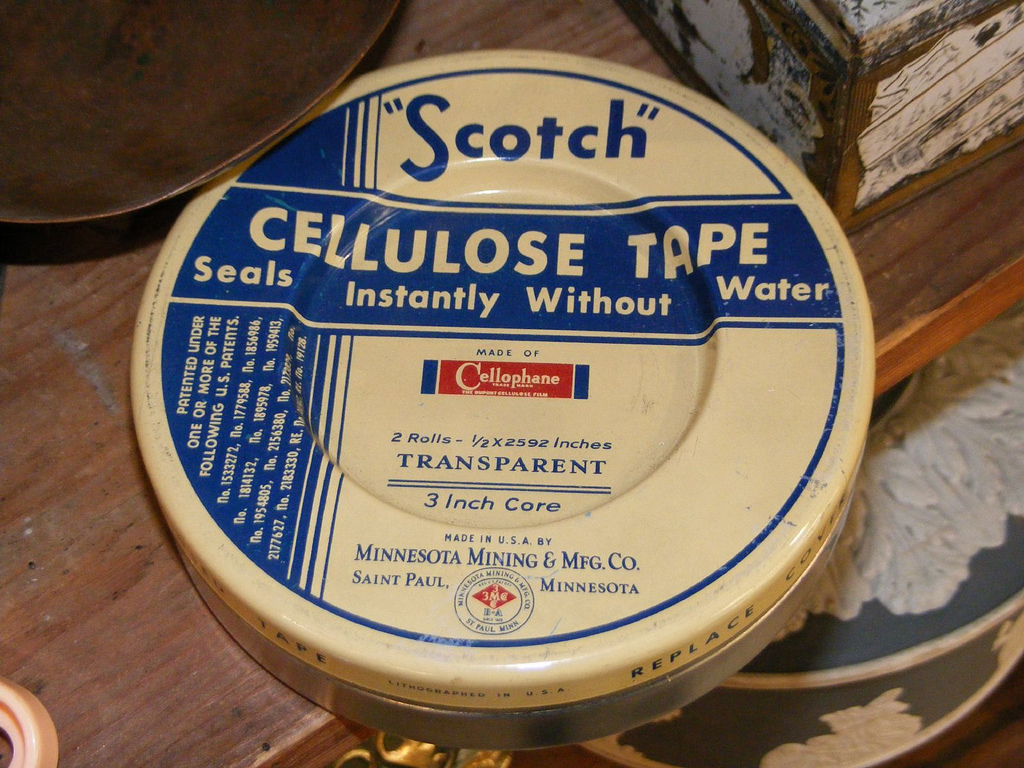 Vintage Scotch Tape package. Exact era unknown.